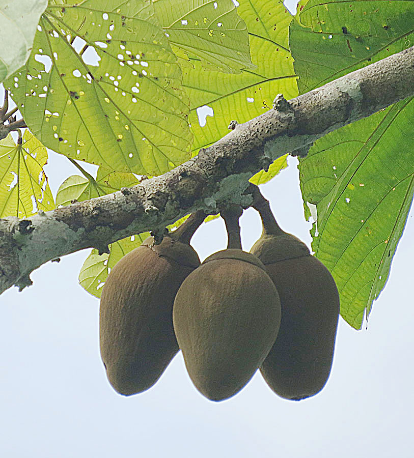 This large, edible fruit is known as Sapotillo or as Chupa-chupa. The species is found in the northwestern Amazon basin and adjacent uplands. In context at